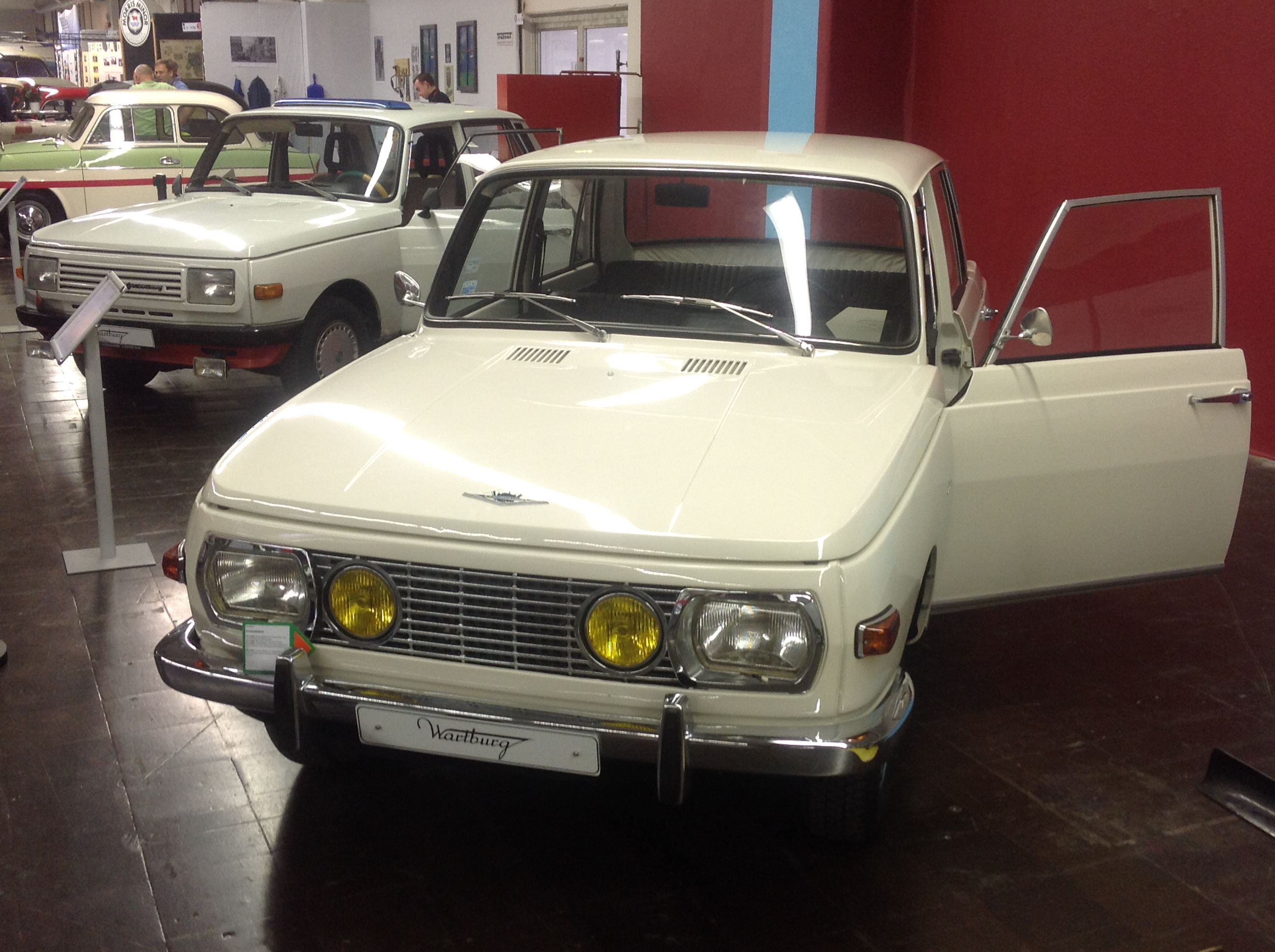 Early (foreground) and later (background) versions.